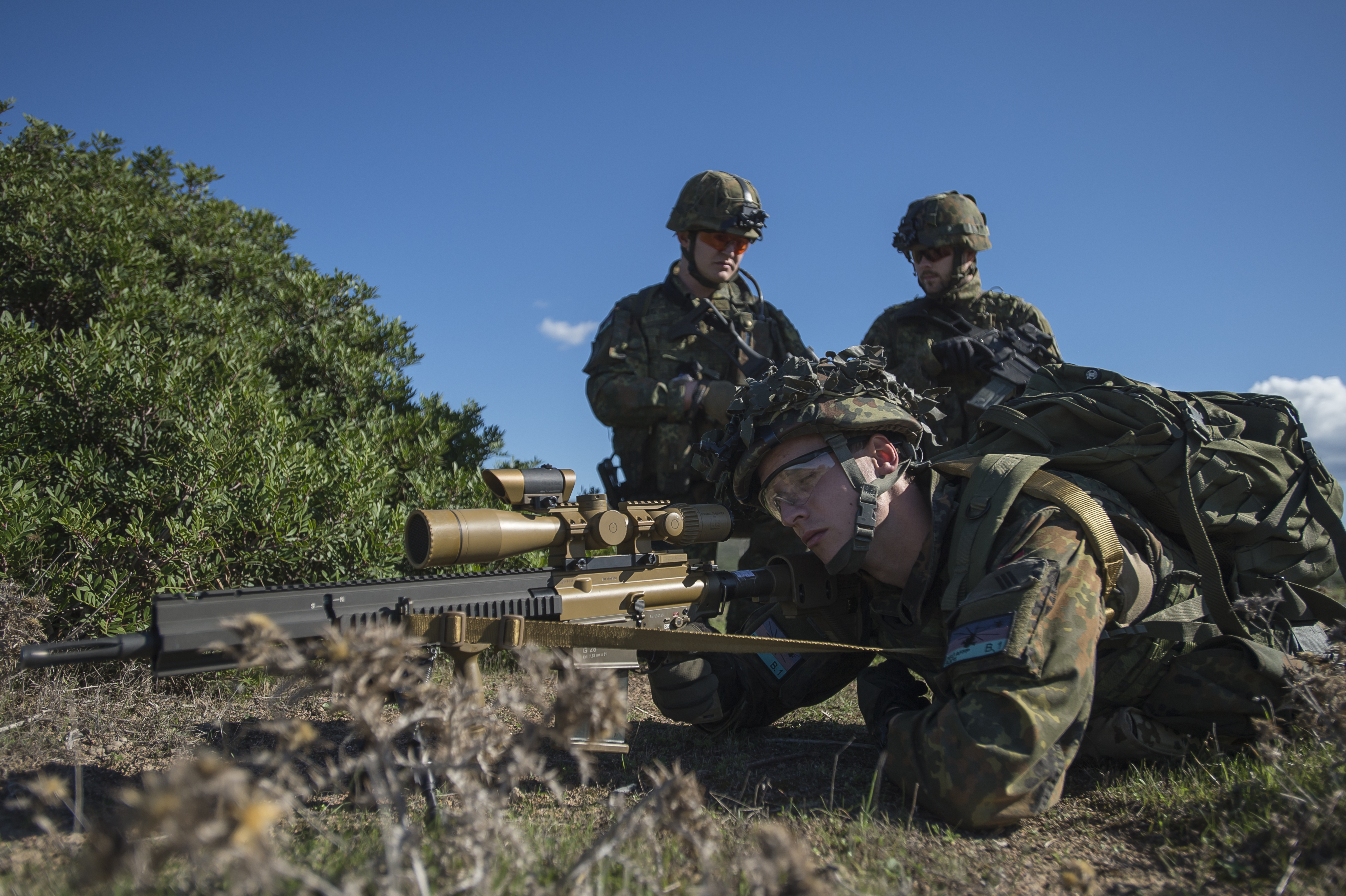 CIMIC joint training with German Army and Italian Carabinieri at Capo Teulada on October 30, 2015 during Trident Juncture 15. (NATO Local PAO Capo Teulada Esercitazione TRJE15) NATO photo by Alessio Ventura